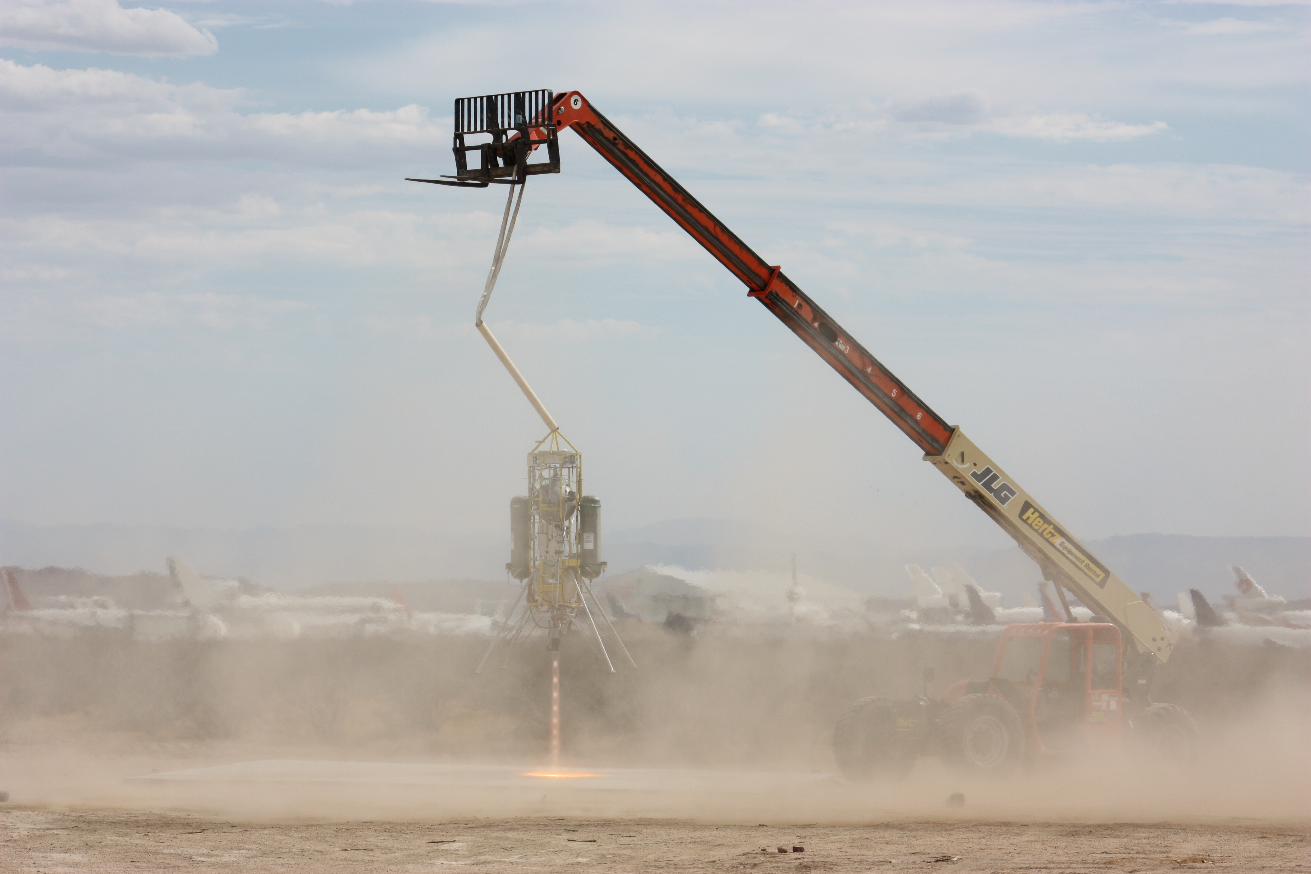 Masten Space Systems XA0.1B "Xombie" rocket lander performs a tethered flight test on September 11, 2009 at the Mojave Air & Space Port